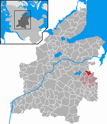 Locator maps of municipalities in Schleswig-Holstein - District Rendsburg-Eckernförde